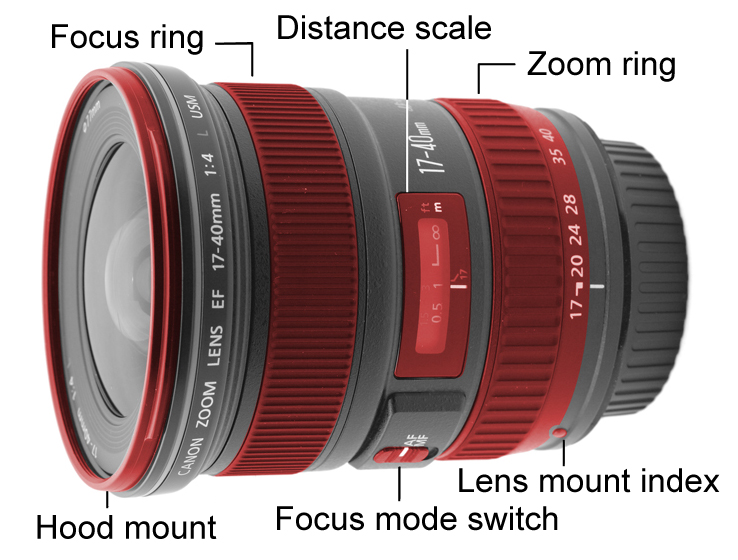 Diagram of an Canon EF lens, showing common features among Canon EF lenses.